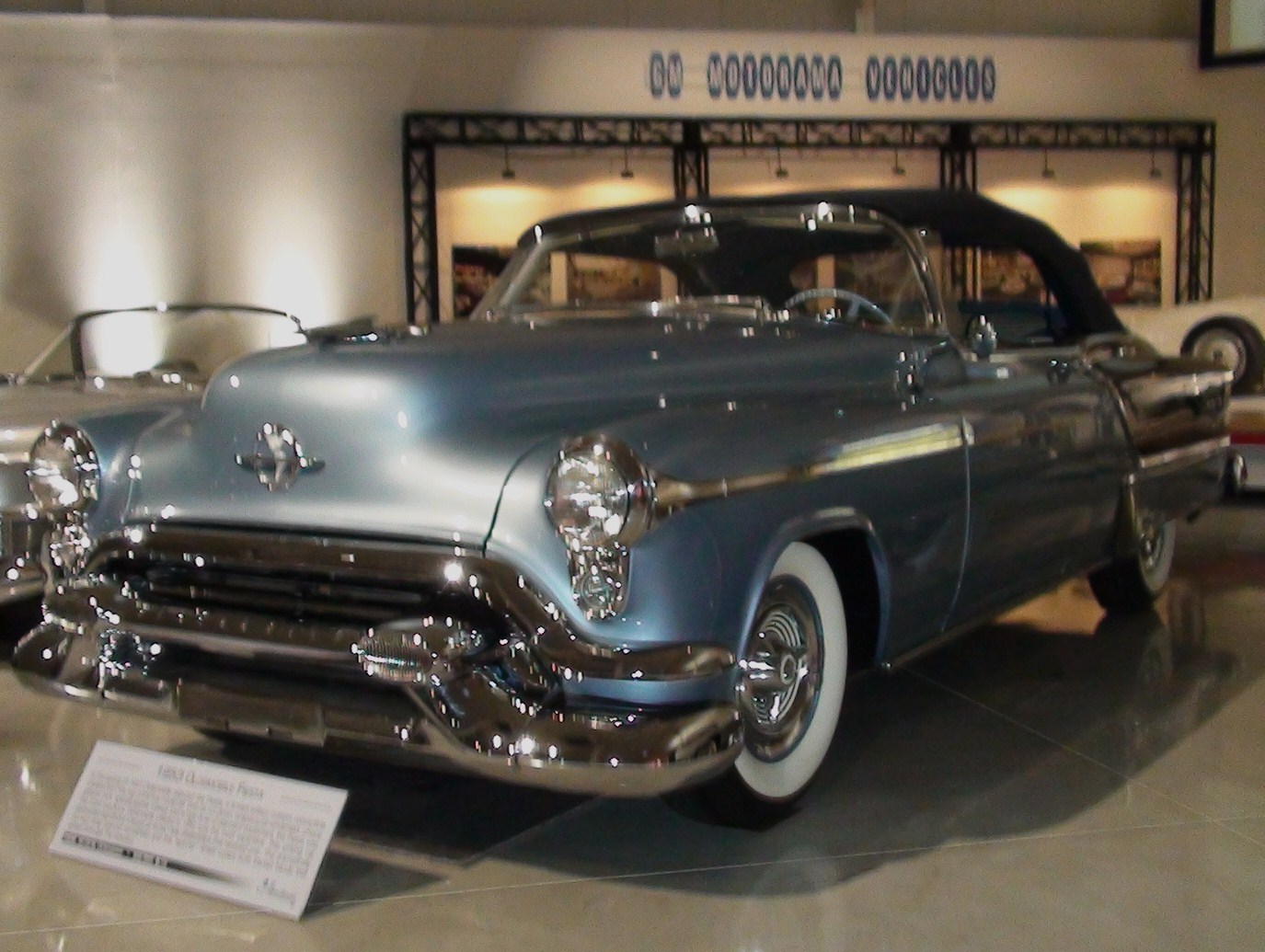 GM Heritage Center.